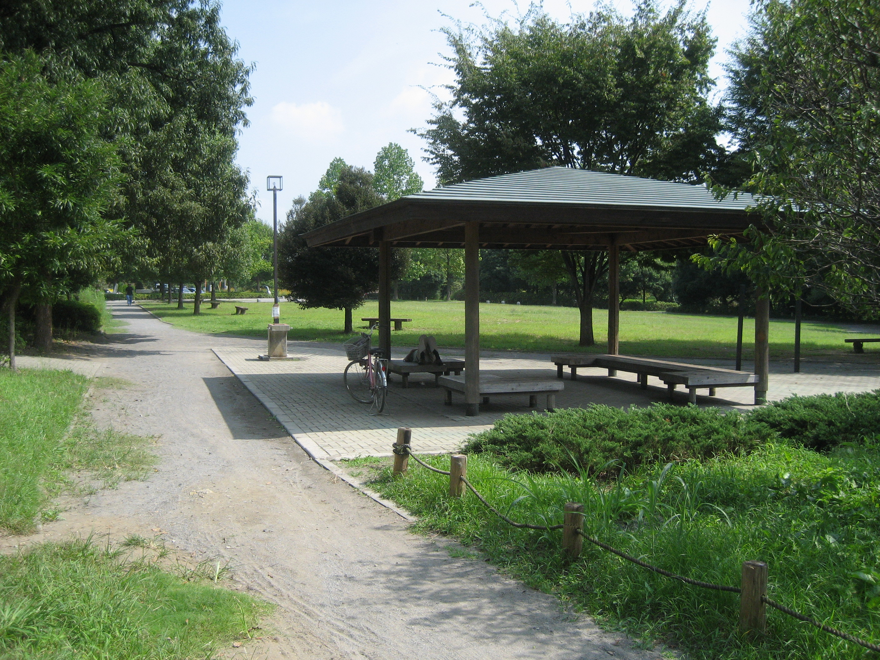 Koshigaya Bairin Park